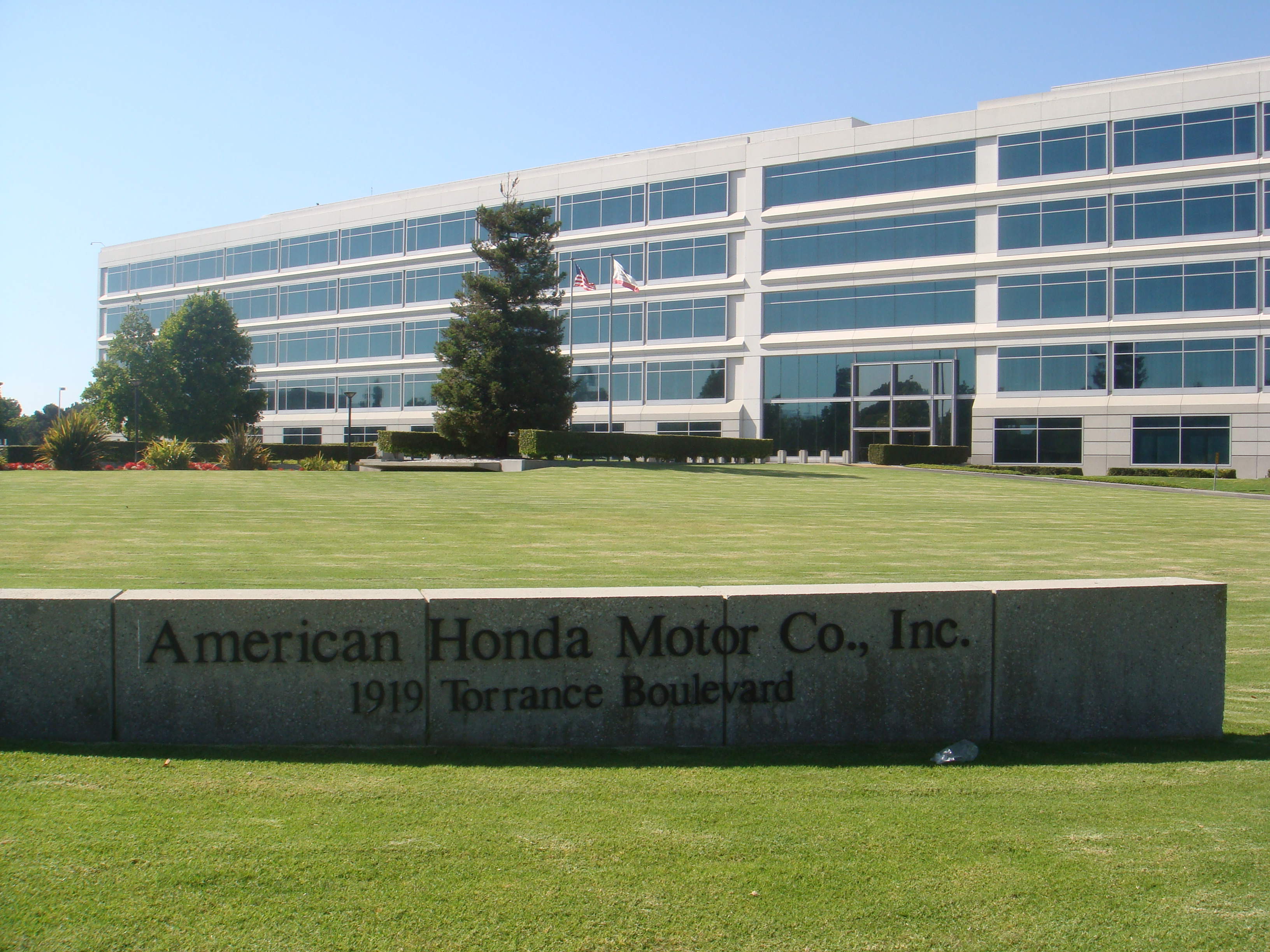 I took this picture myself on August 30, 2010, standing outside of the American Honda Motor Company, Inc. building in Torrance, California.